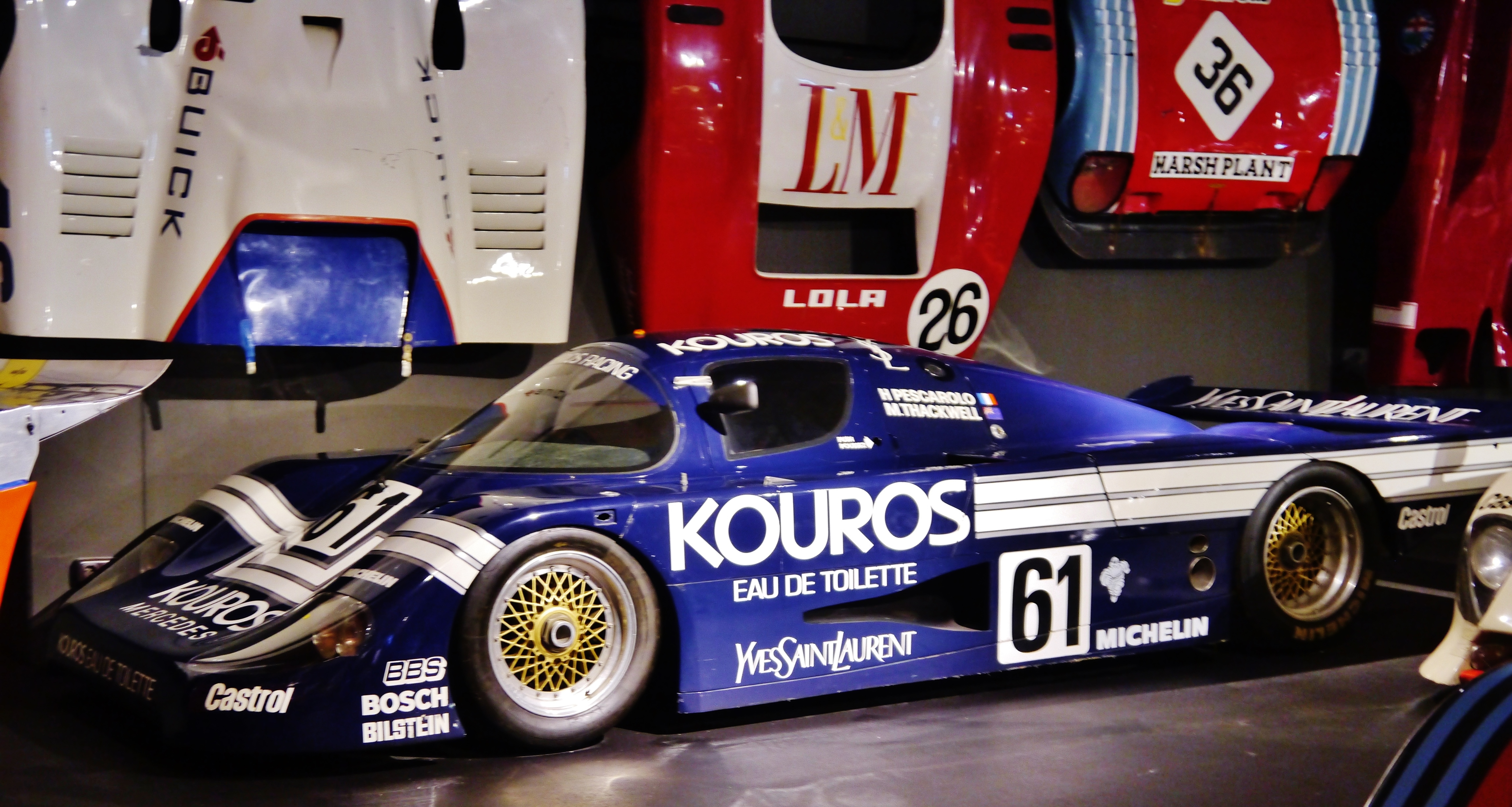 National Automobile Museum/Louwman Museum, The Hague, Province of South Holland, Netherlands